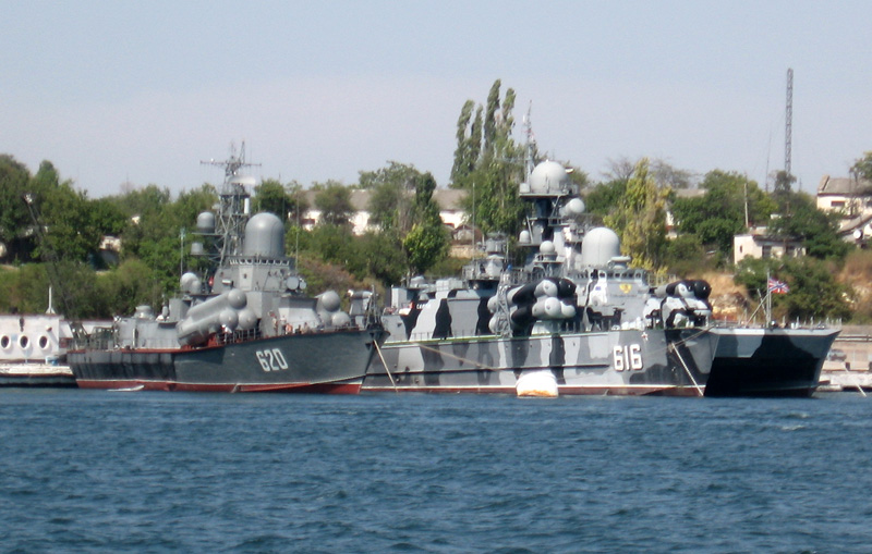 Small guided missile ship project 12341 Shtil' and project 1239 Samum in Sevastopol.